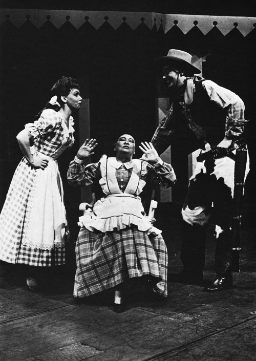 Harriet Forssell as Laurey, Lars Ekman as Curly and Gudrun Brost as Aunt Murphy in Oklahoma. Malmö Stadsteater